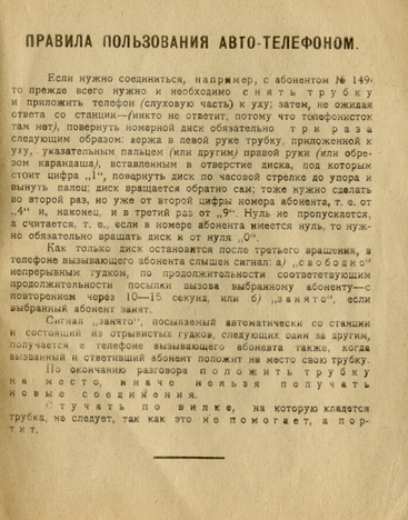 Kremlin telephone book 1922, page with rules of use. From Sadovsky's family archive